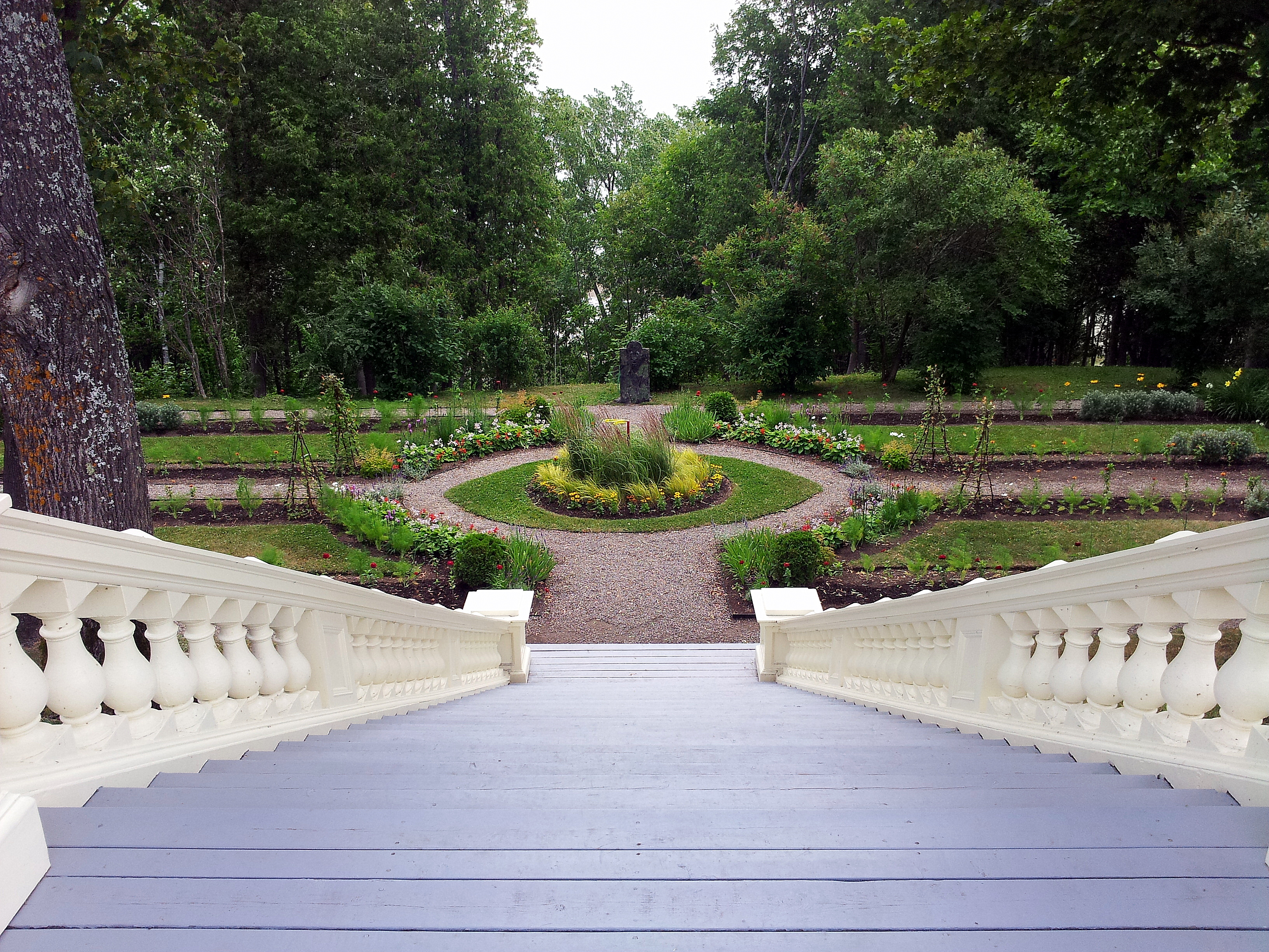 Gardent, Domaine Forget, Saint-Irénée, Québec